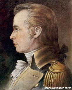 Redding Press Revolutionary War